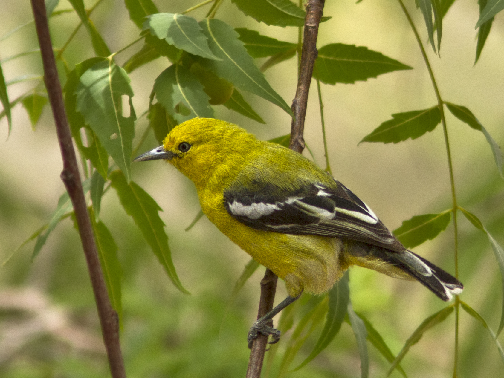 Marshall's Iora